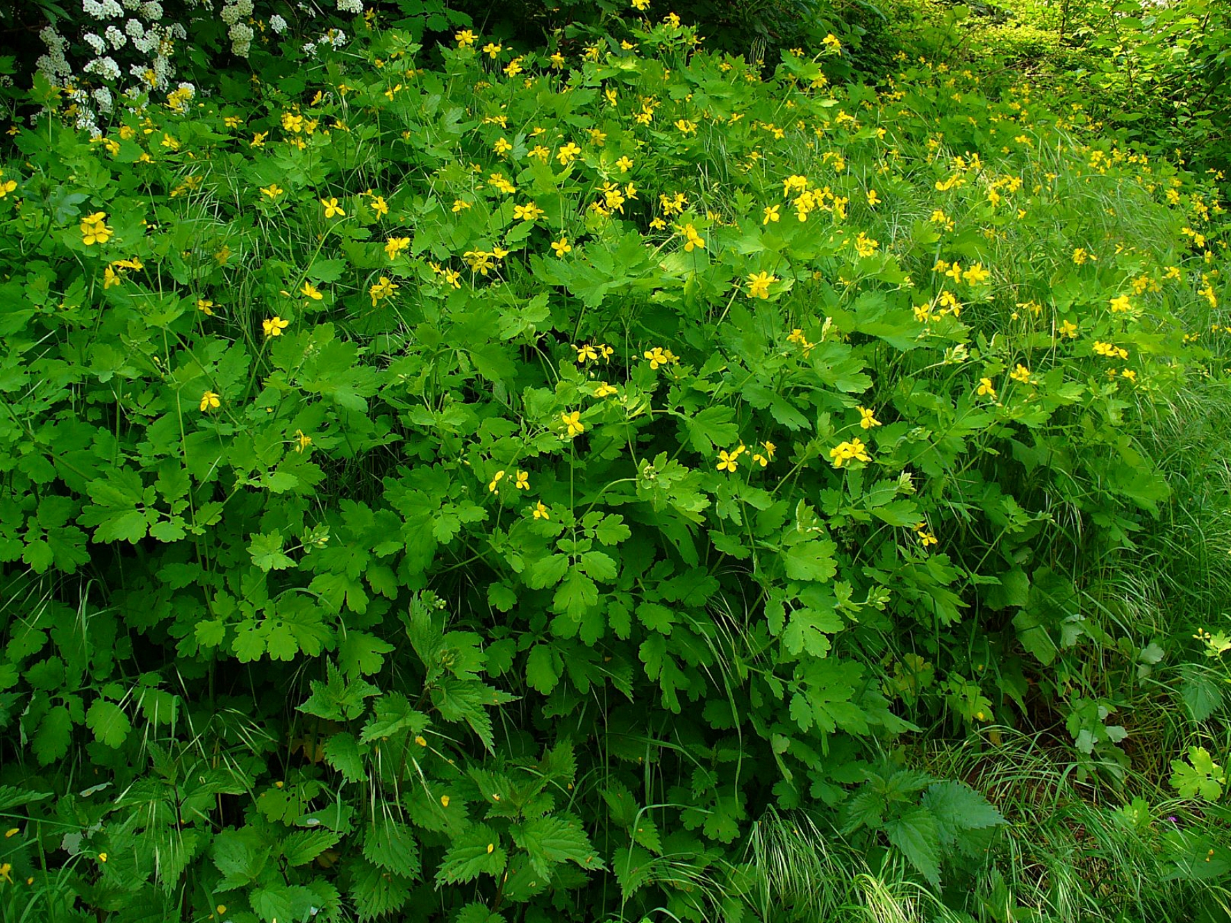 Chelidonium majus, Papaveraceae, Greater Celandine, Tetterwort, habitus; Karlsruhe, Germany. The fresh rhizome is used in homeopathy as remedy: Chelidonium (Chel.)